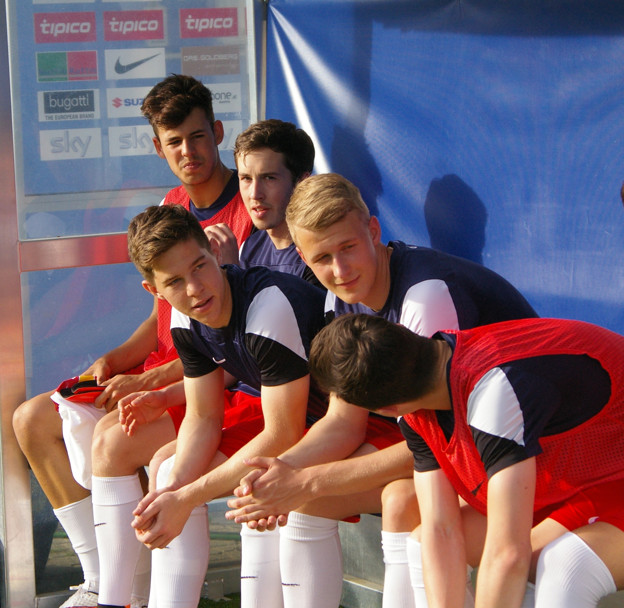 league match Austria 2nd league